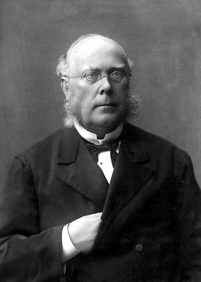 Johannes Swedborg (1824-1888), Swedish teacher ("lektor") of classic languages and newspaper editor.